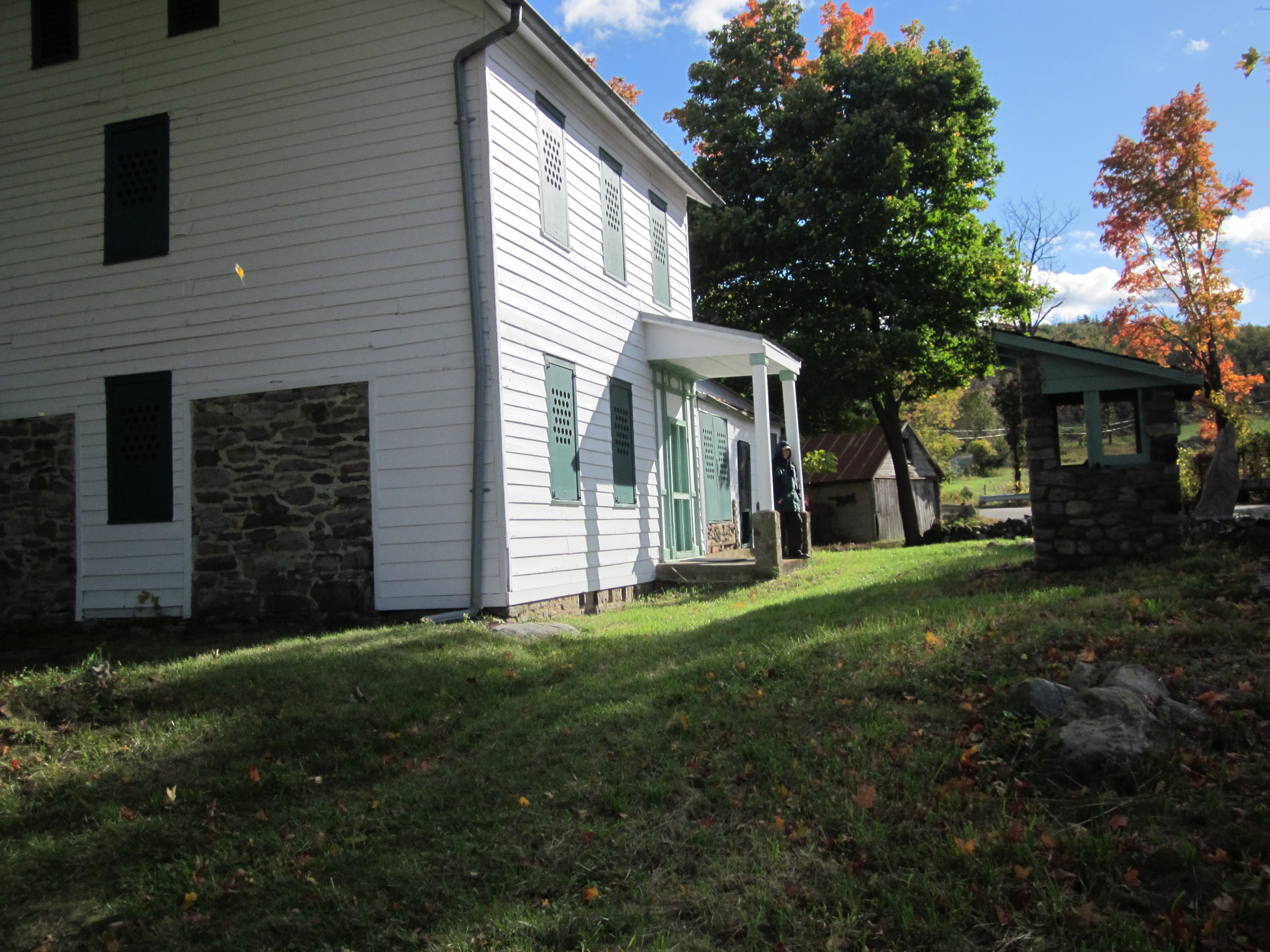 Building at High Breeze Farm